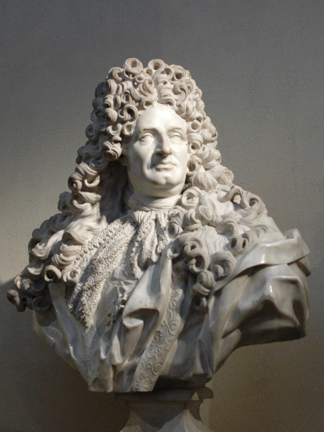 Bust of Jules Hardouin-Mansart (1645–1708). Marble, 1703.